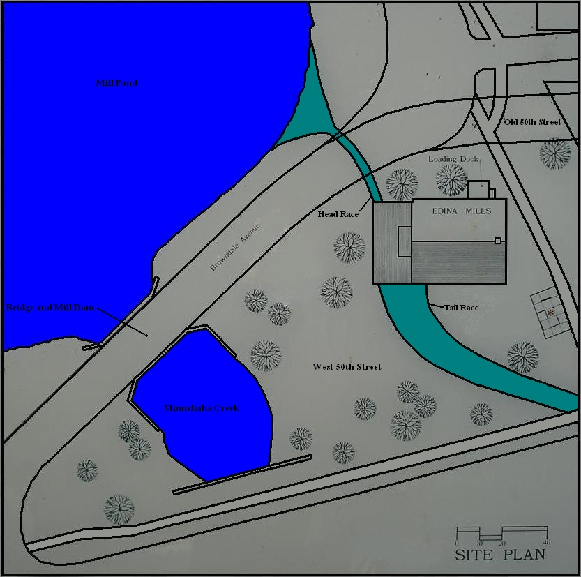 I created this image and give full release